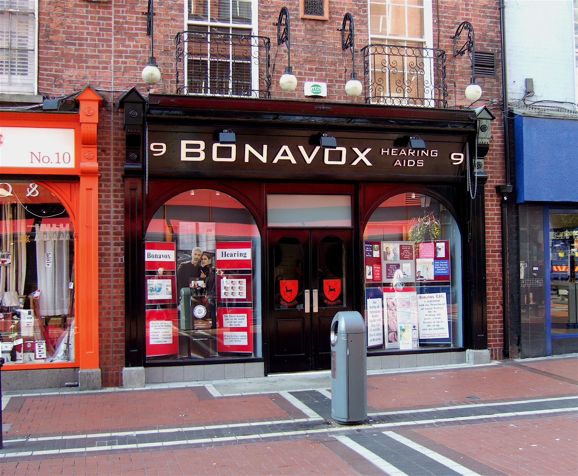 A Bonavox hearing aid shop in North Earl Street, Dublin, Ireland.